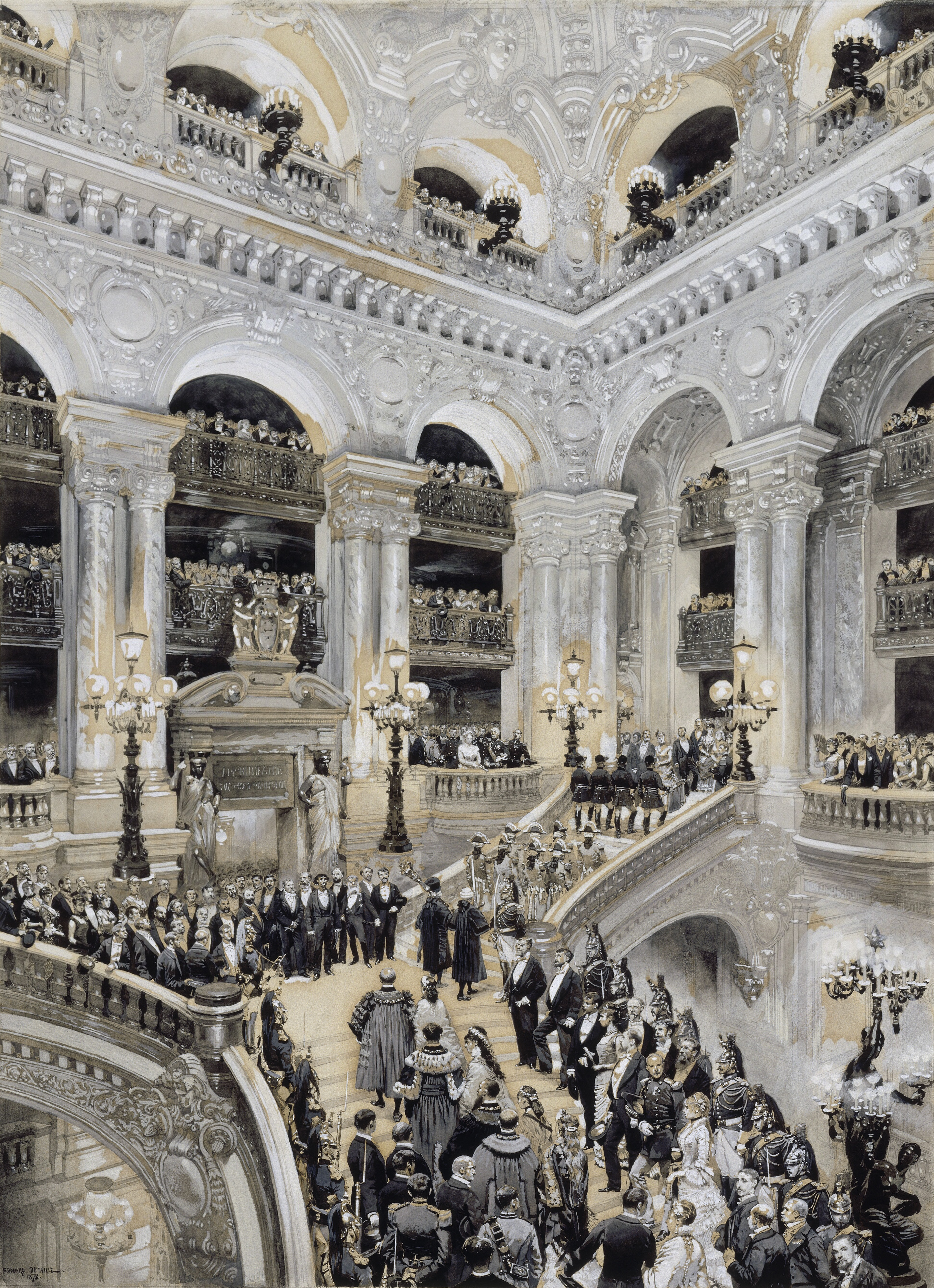 Inauguration of the Paris Opera, 5 January 1875 (gouache on paper, 66.5 x 50.7 cm, Collections of the Château of Versailles)